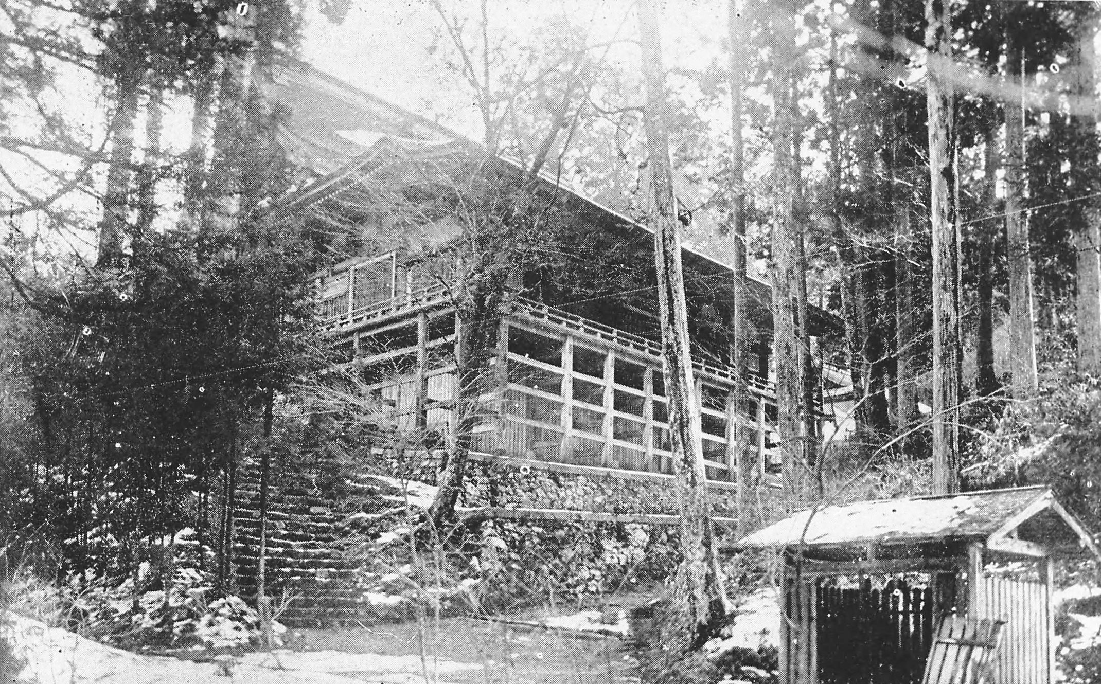 The former Yokawa Chudo of Enryakuji, lost in 1942 by lightning strike.